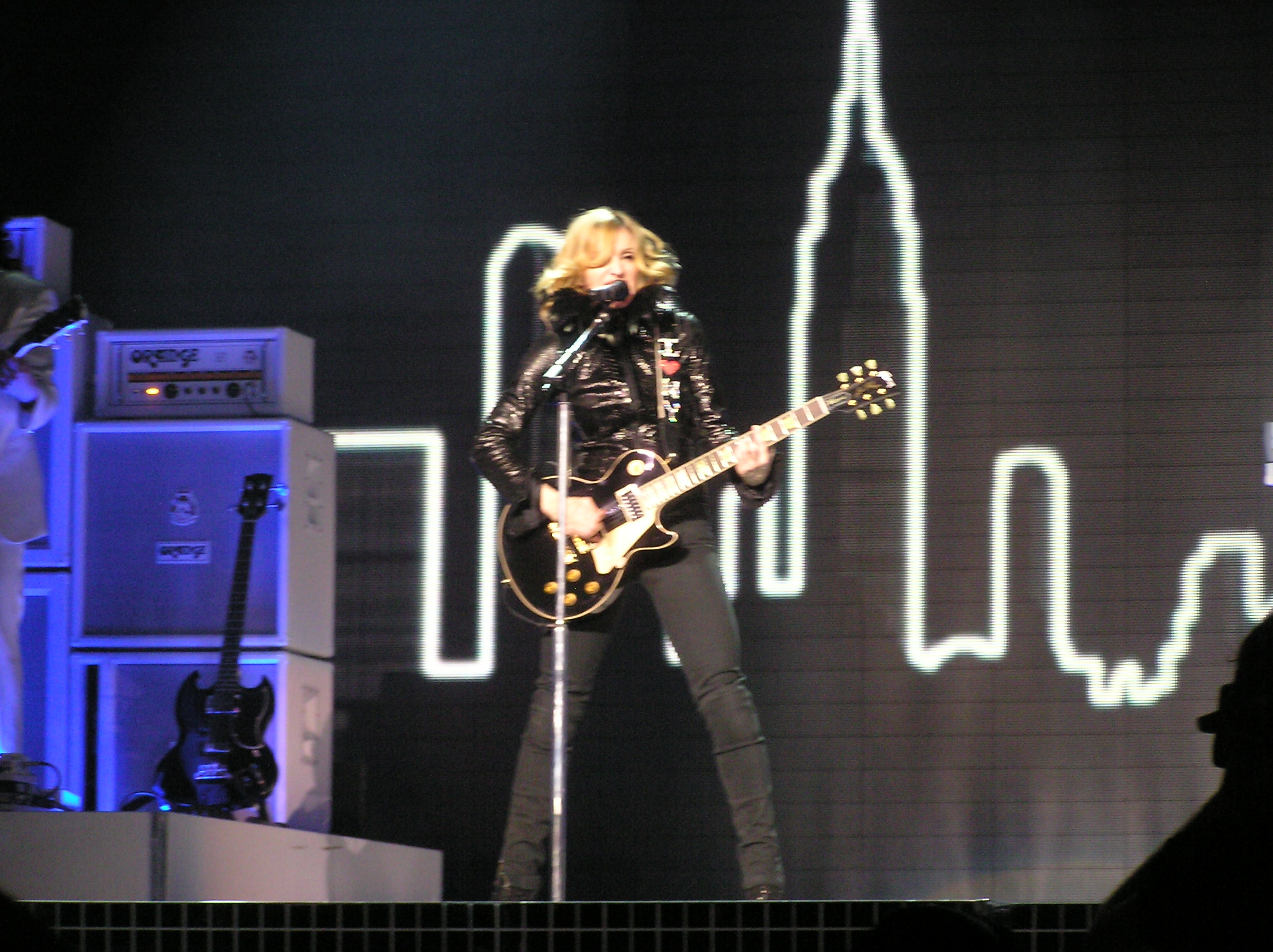 Madonna concert in Fresno